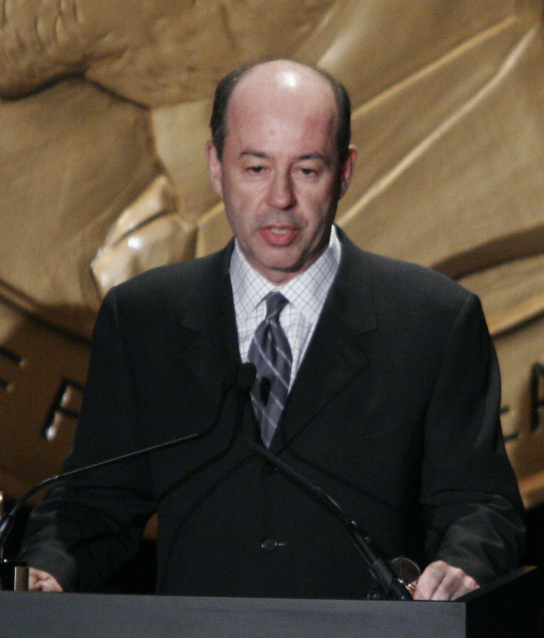 66th Annual Peabody Awards Luncheon Waldorf=Astoria Hotel New York, NY USA June 4, 2007